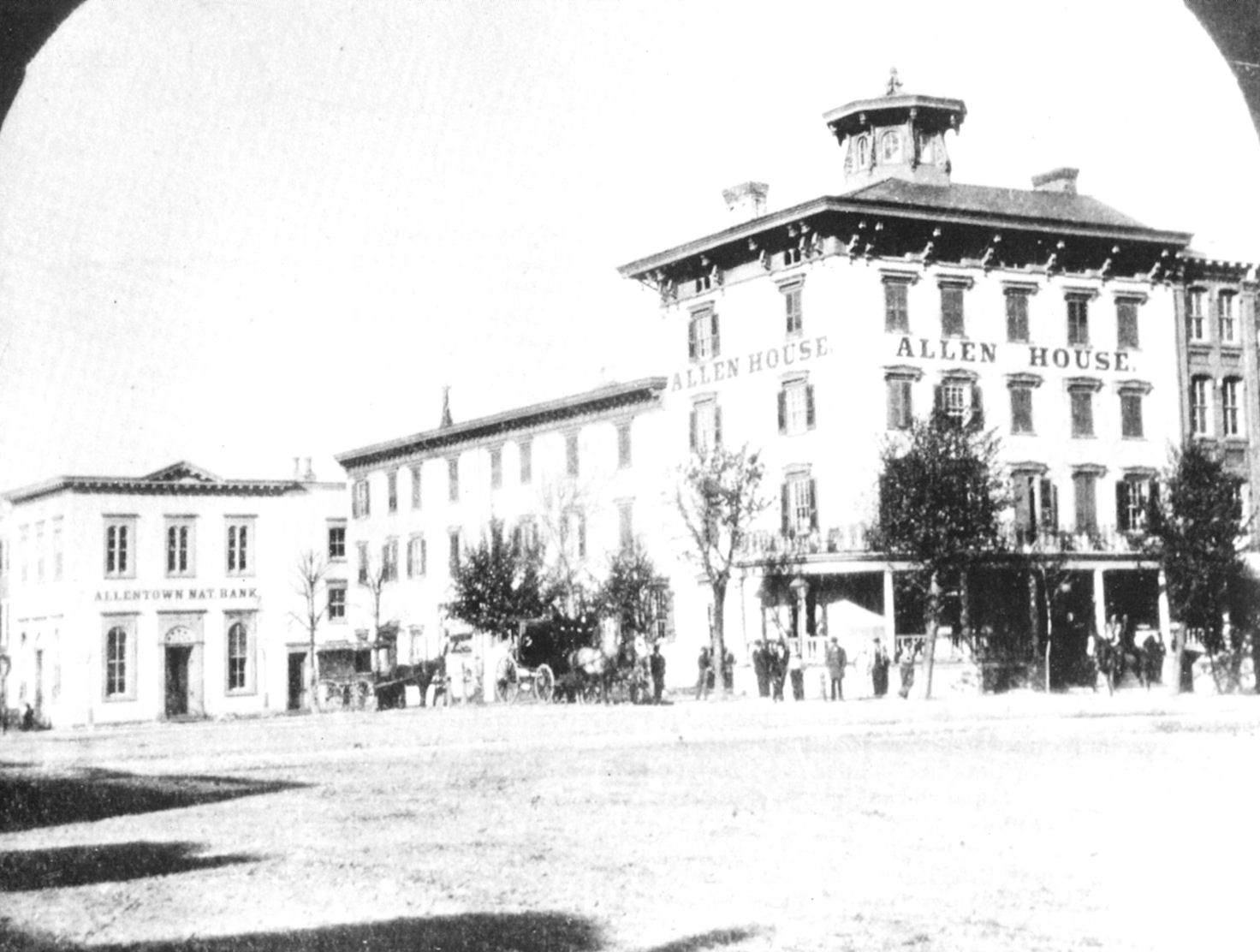 Allen House NE Corner Center Square In the 1870s, the Allen House Hotel on the northeast corner of Center Square was the place to stay in Allentown. It was owned by Robert D. Kramer, catering to businessmen and travelers with accommodations second, without exception to none. The hotel was torn down in the 1880s and replaced by the Hotel Allen, which stood until 1947. To the left is the Allentown National Bank. The building began life as the Northampton Bank in 1814 and closed in 1843 after its funds were embezzled by its bank president, John Rice. In 1855, the bank was re-chartered as the Allentown Bank, being renamed as the Allentown National Bank in 1865. It was torn down and replaced by a seven-story building in 1905. In 1955, the Allentown National Bank merged with the Second National Bank, becoming the First National Bank of Allentown. The existing building on the northeast corner of Center Square was purchased and torn down, a new First National Bank Building opening in its place in 1958. Today the Two City Center stands where the Allen House Hotel was in this photograph.